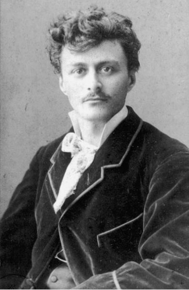 Photograph of Alfred Schüler (1858-1938), oldest brother of Else Lasker-Schüler. Stadtbibliothek Wuppertal. From: Ulrike Schrader: „Dem ältesten aber bin ich ein fremdes Kind geblieben ...“. Neuigkeiten über den Maler Alfred Jacob Schüler, den Bruder der Dichterin Else Lasker-Schüler. In: Geschichte in Wuppertal. Jg. 12 (2003), S. 93.